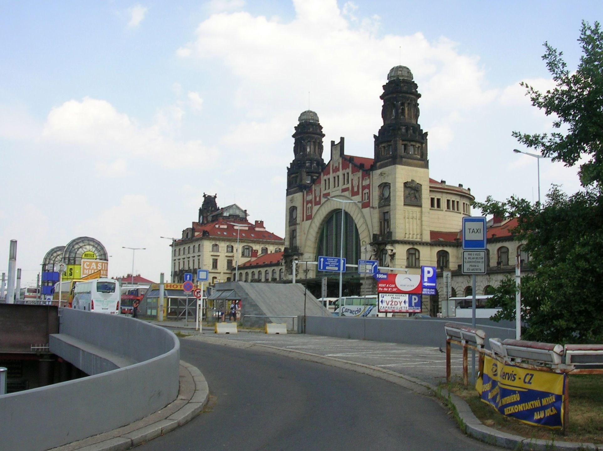 New Town and Vinohrady, Prague, the Czech Republic. Prague main railway station.